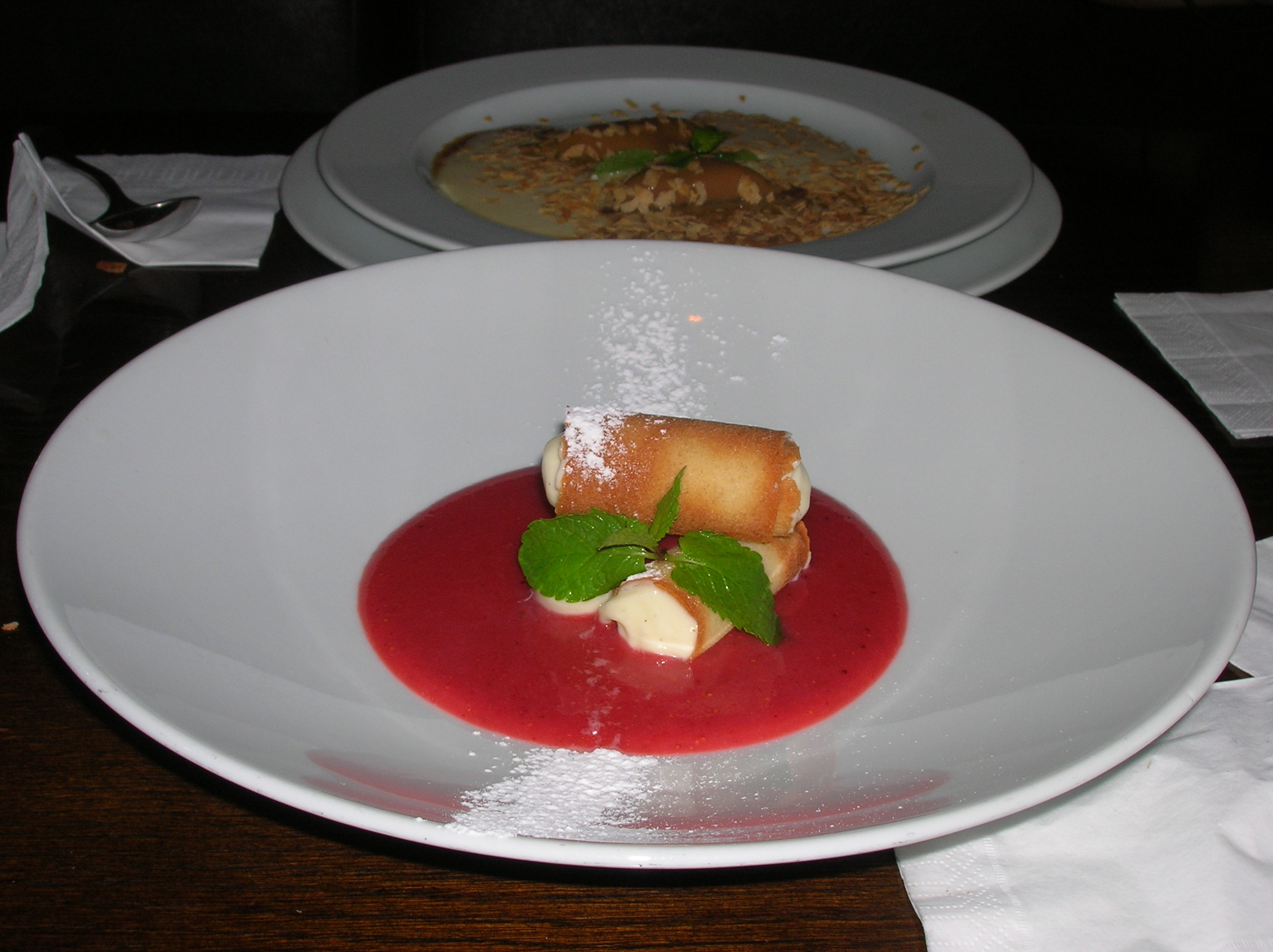 Avi biton 2011 4